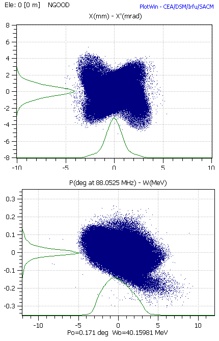 Beam particle distribution in two 2D sub-phase-spaces